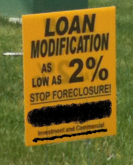 A sign advertising foreclosure rescue, name and number blanked out following discussion.